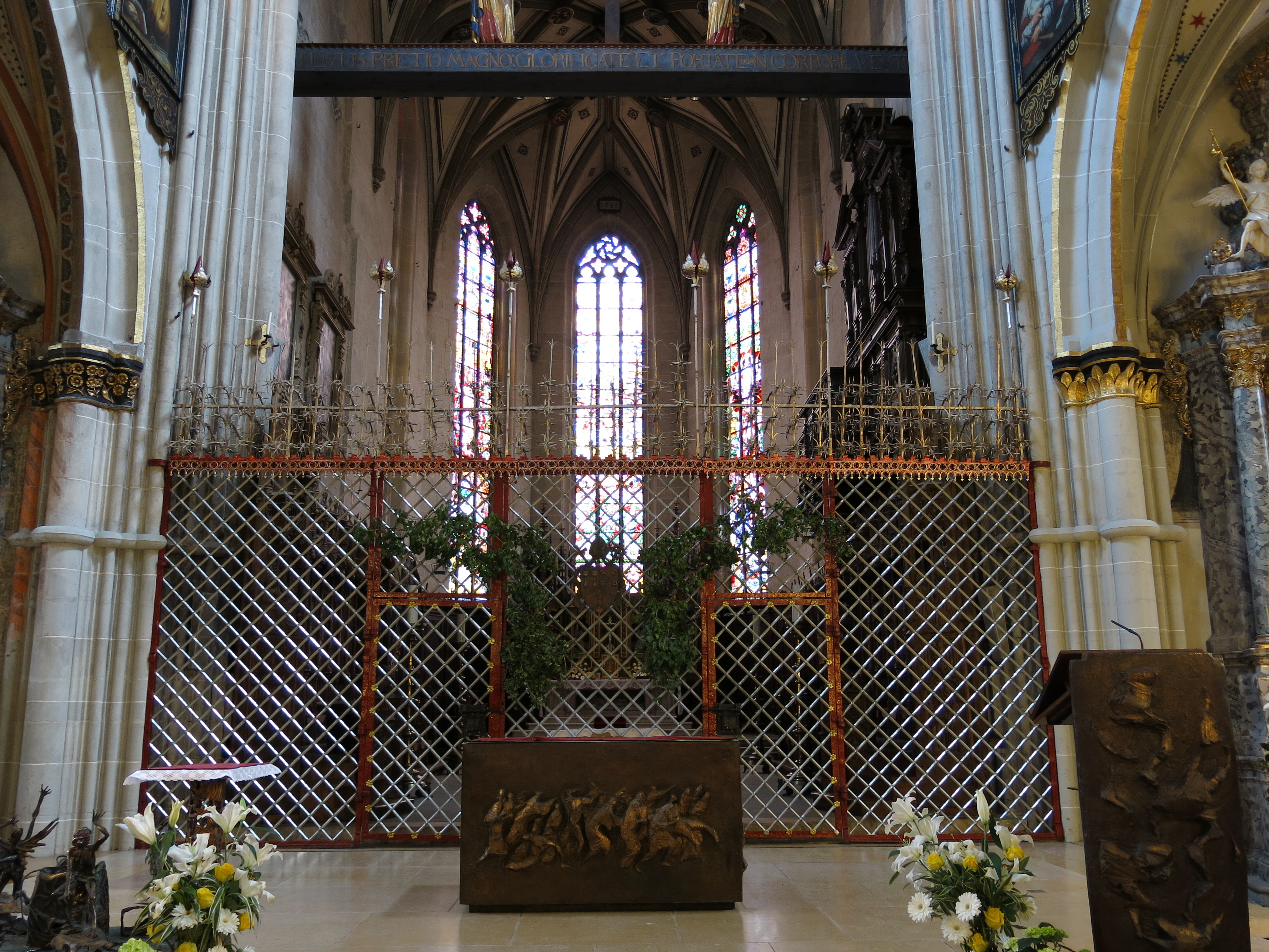 Fribourg, Switzerland